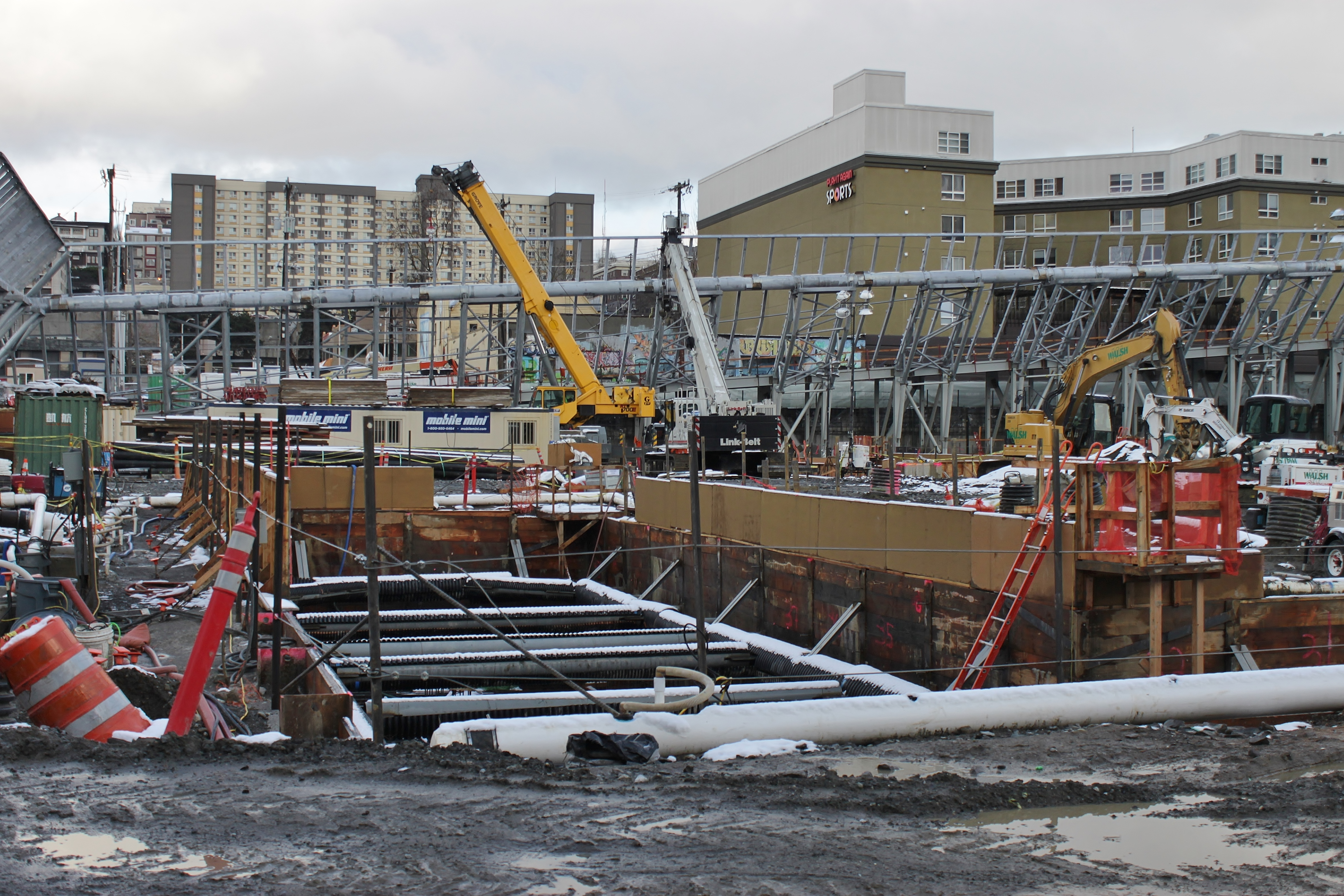 Construction of the Denny Substation in February 2016, viewed from Pontius Avenue.